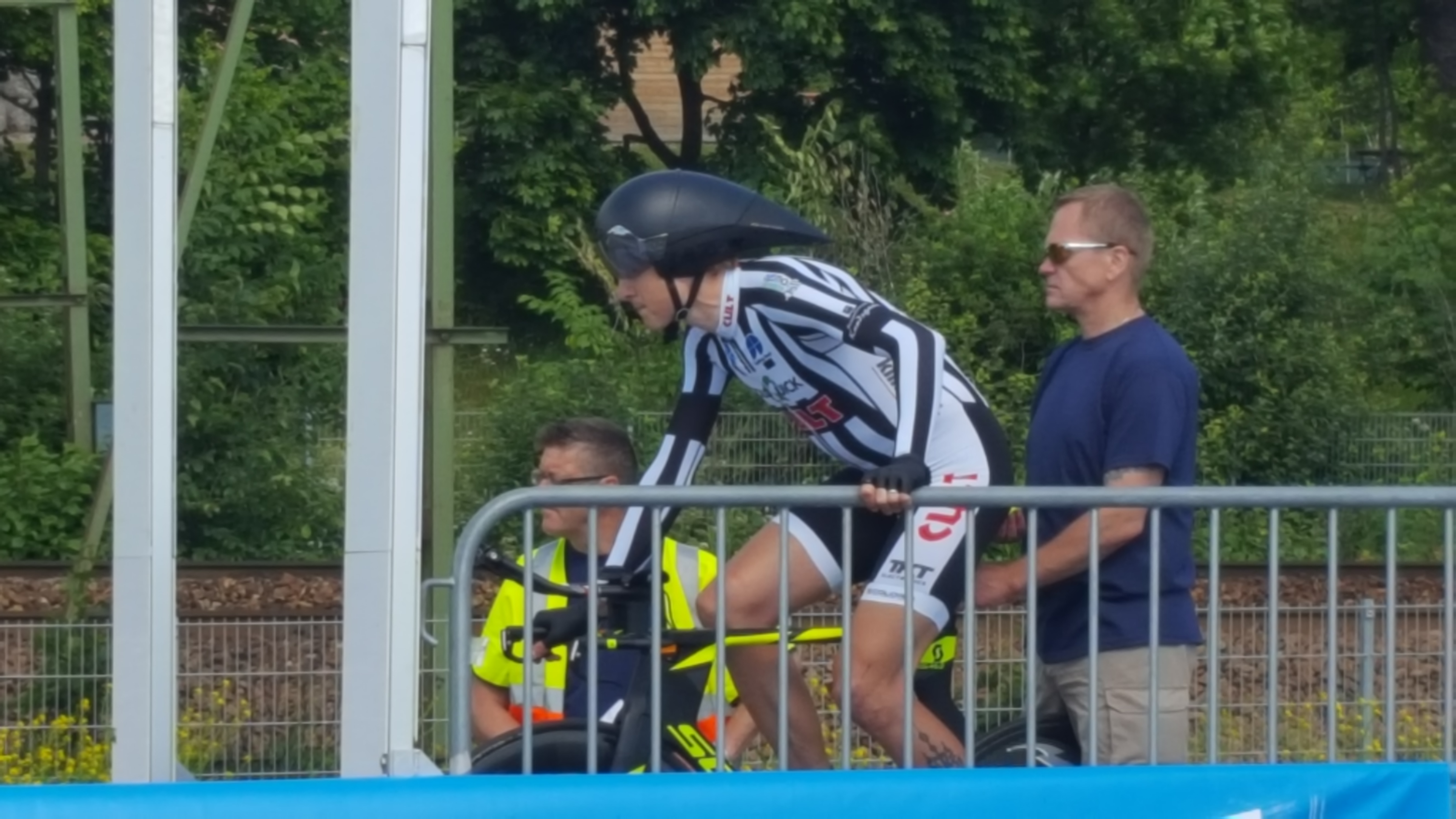 Gustav Larsson at Swedish championship in time trial 2016